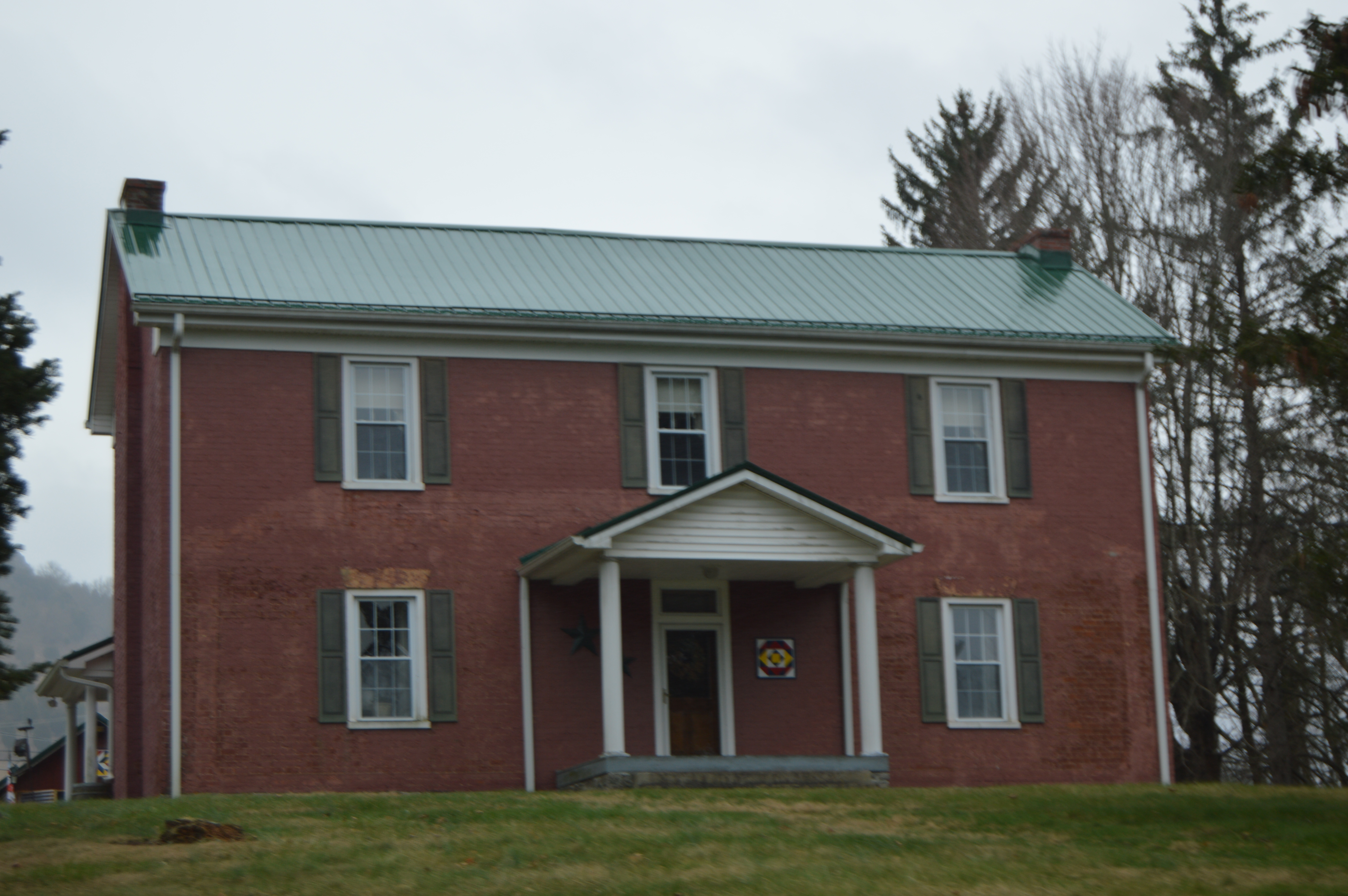 Front of the Samuel Gilmer House, located on U.S. Route 19 immediately east of Lebanon in Russell County, Virginia, United States. Built in 1820, it is listed on the National Register of Historic Places.